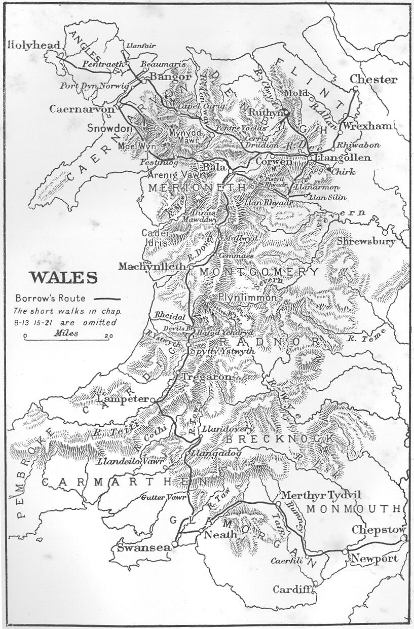 George Borrow's route through Wales in 1854, described in his book "Wild Wales" (1862). Map from John Murray's 1907 edition.